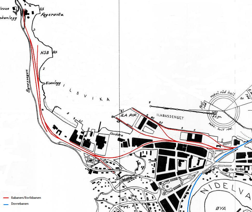 Edited map from 1953 by Trondheim Havn over the railwayline Ilsvikbanen/Ilalinjen from Skansen to Fagervika in Trondheim.